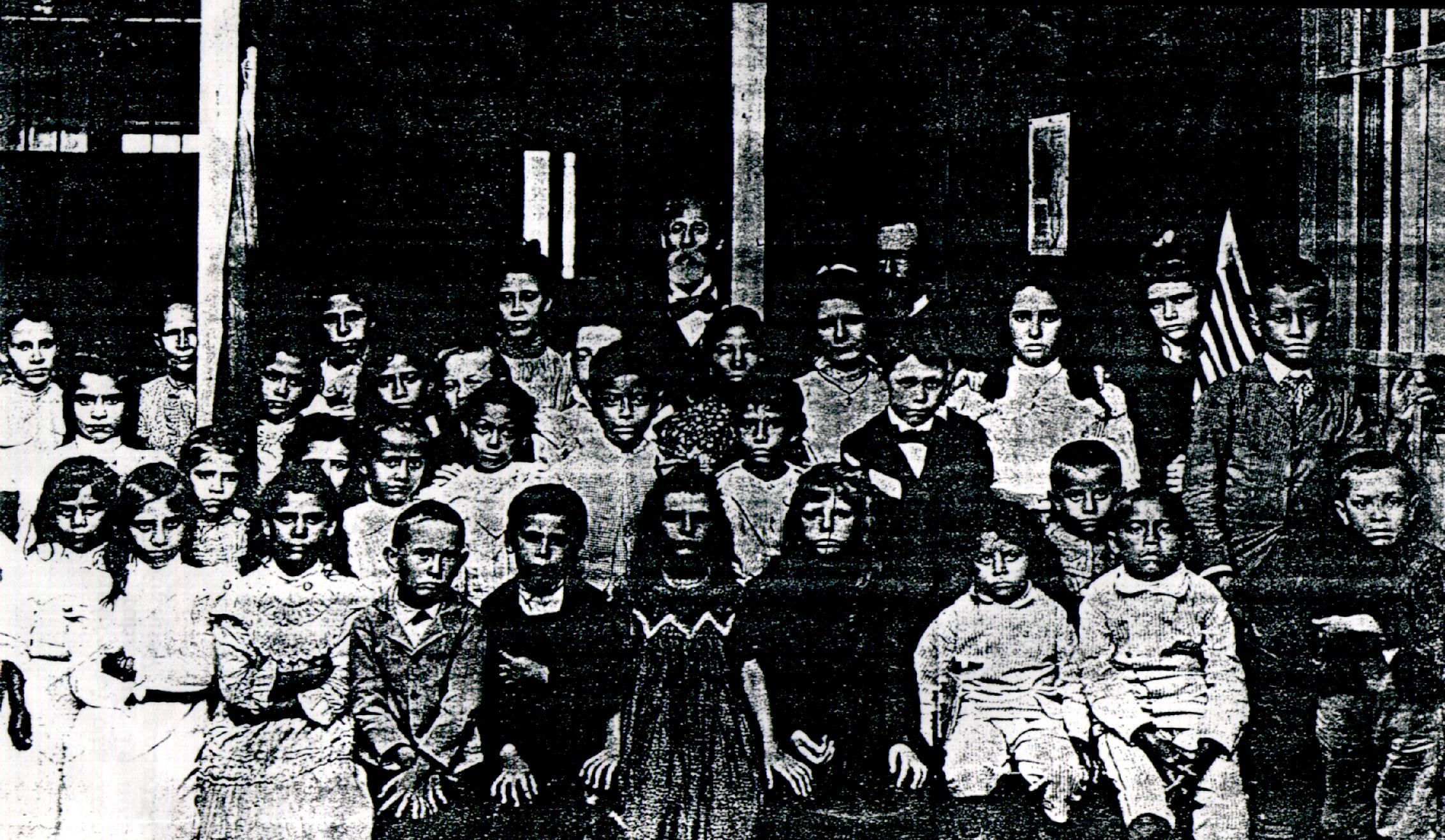 First moment in the foundation of Colegio Americano de Caracas in 1896.